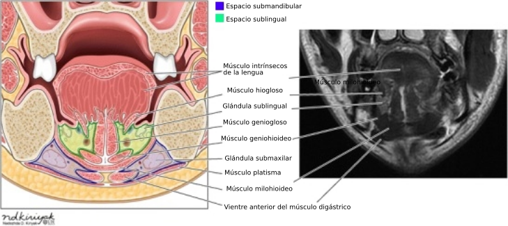 Anatomy of the submandibular space and sublingual space in the coronal plane: picture illustration and T2-weighted MR image